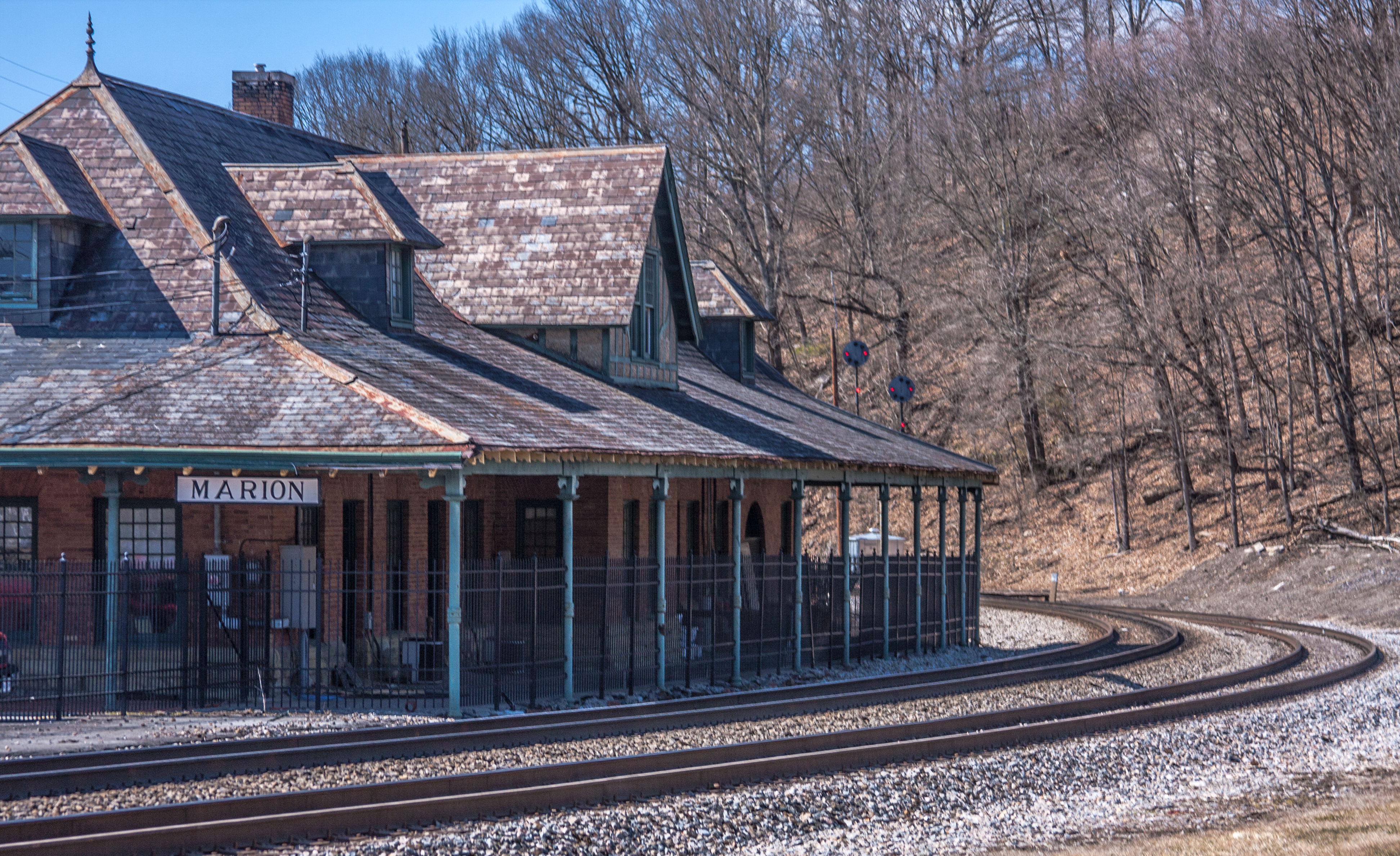 Norfolk & Western train depot in Marion, Smyth County, Virginia